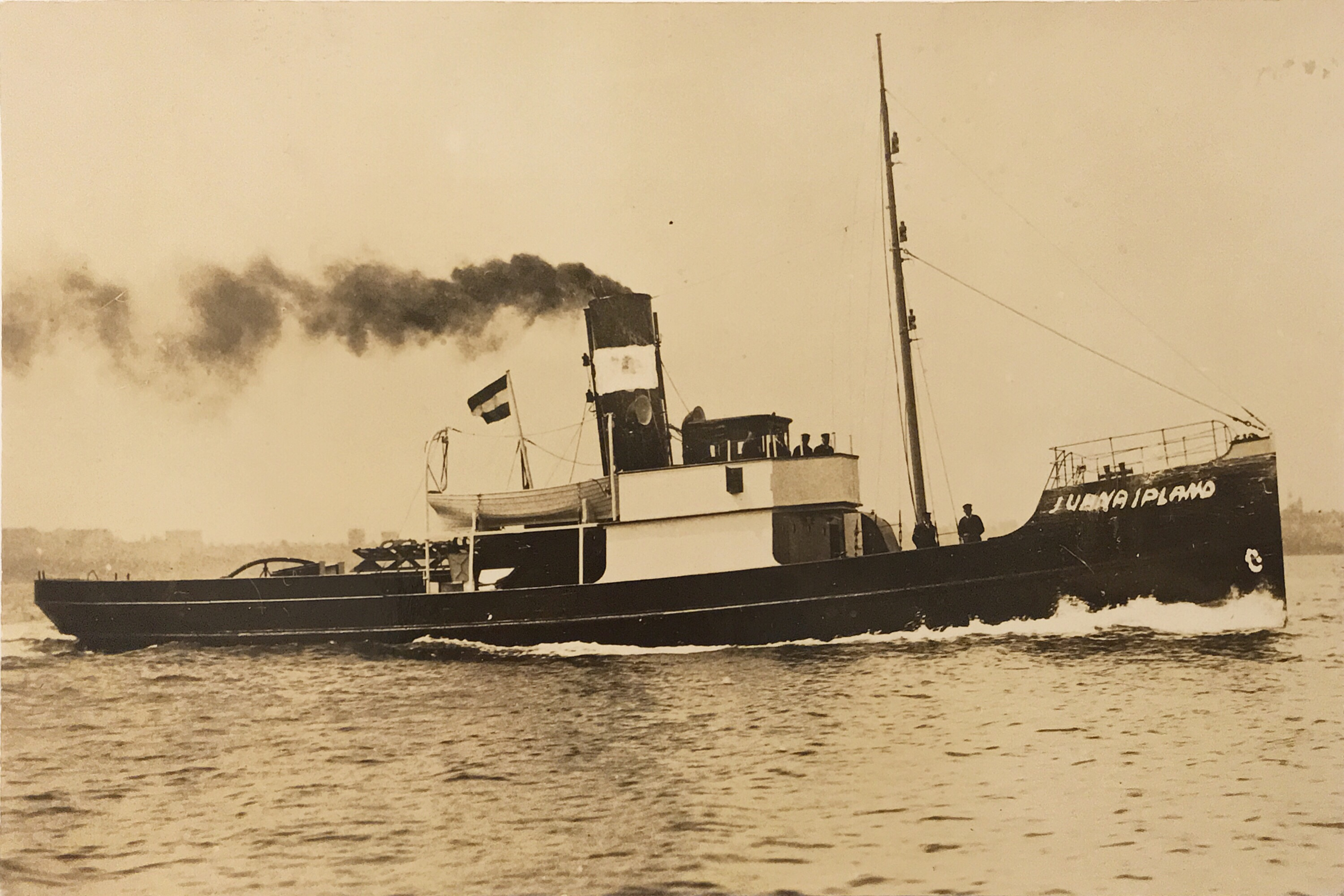 The ship originally named “Thielen” was built by "Howaldtswerke AG" at Kiel in 1900 as a freighter and later on converted to a tug. 1900: delivered to "NDC - Neue Dampfer Compagnie" at Kiel 1923: converted to tug, renamed HOWACHT 1927: sold to Gustav Ipland at Buenos Aires and renamed JUANA IPLAND 1928: sold to "Cia Transportadora de Petroleos de Buenos Aires" at Buenos Aires (ARG), renamed TOWPET 1938: renamed ESSO TOW 1947: finally sold to "SA Petrolera Argentina" at Buenos Aires, renamed ESSO GUAZU.